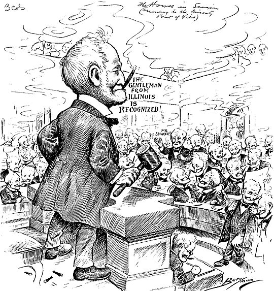 Speaker Joseph Gurney Cannon, scanned cartoon from 1908